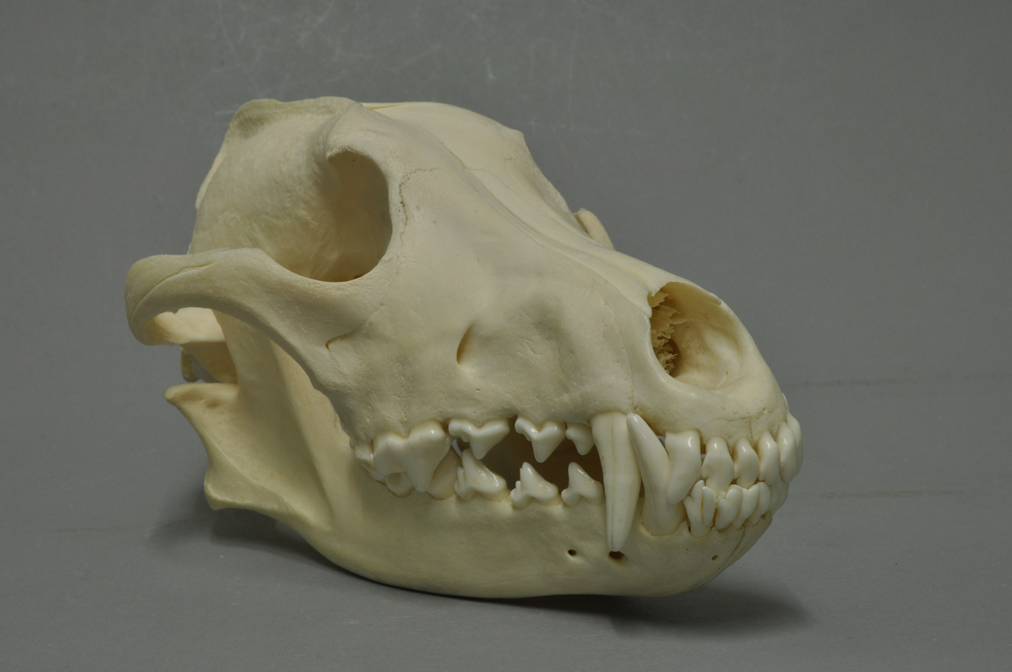 Gray wolf Canis lupus, skull, Coll. Museum Wiesbaden